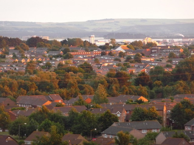 Canford Heath: modern roofscape Looking across the vast 1970s housing estate of Canford Heath, from the substantial remaining heathland to the north. Electricity cables, running right across the picture, are catching unexpected bright evening sunlight following a cloudy early evening. The Purbeck Hills are in the distance, with Poole Harbour in front.